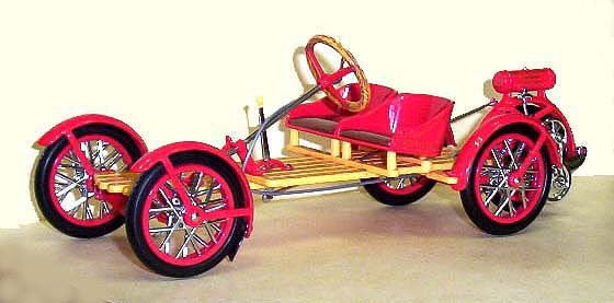 Briggs & Stratton Flyer.